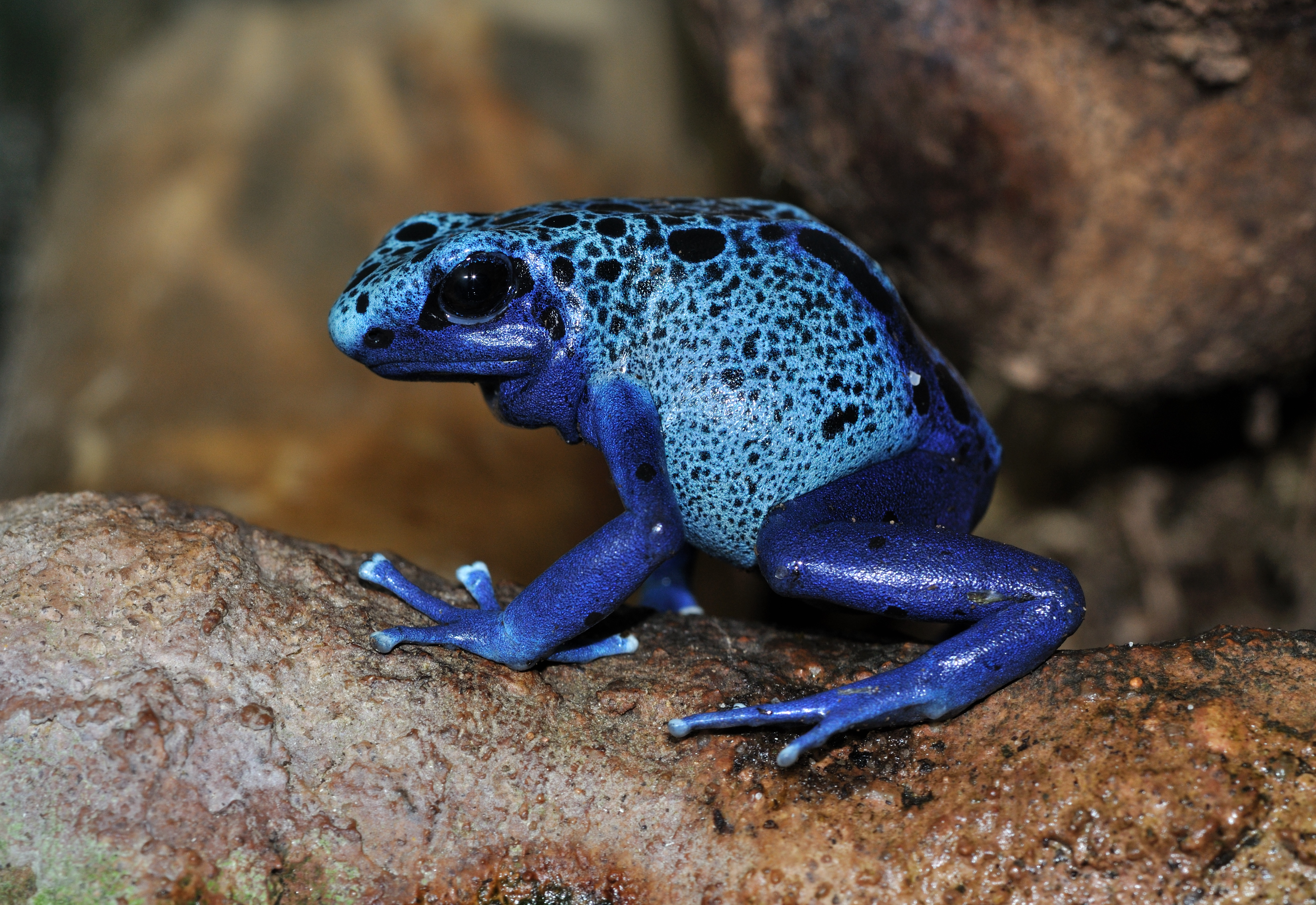 Blue Poison Dart Frog (Dendrobates azureus) in the Frankfurt Zoo, Germany.